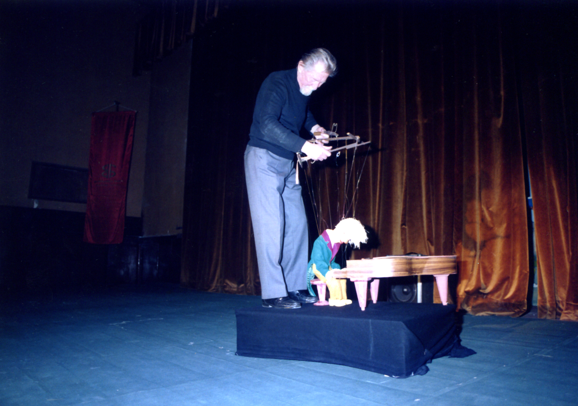 Šandor Hartig performs at the 65th anniversary celebration of the Youth Theater, Novi Sad